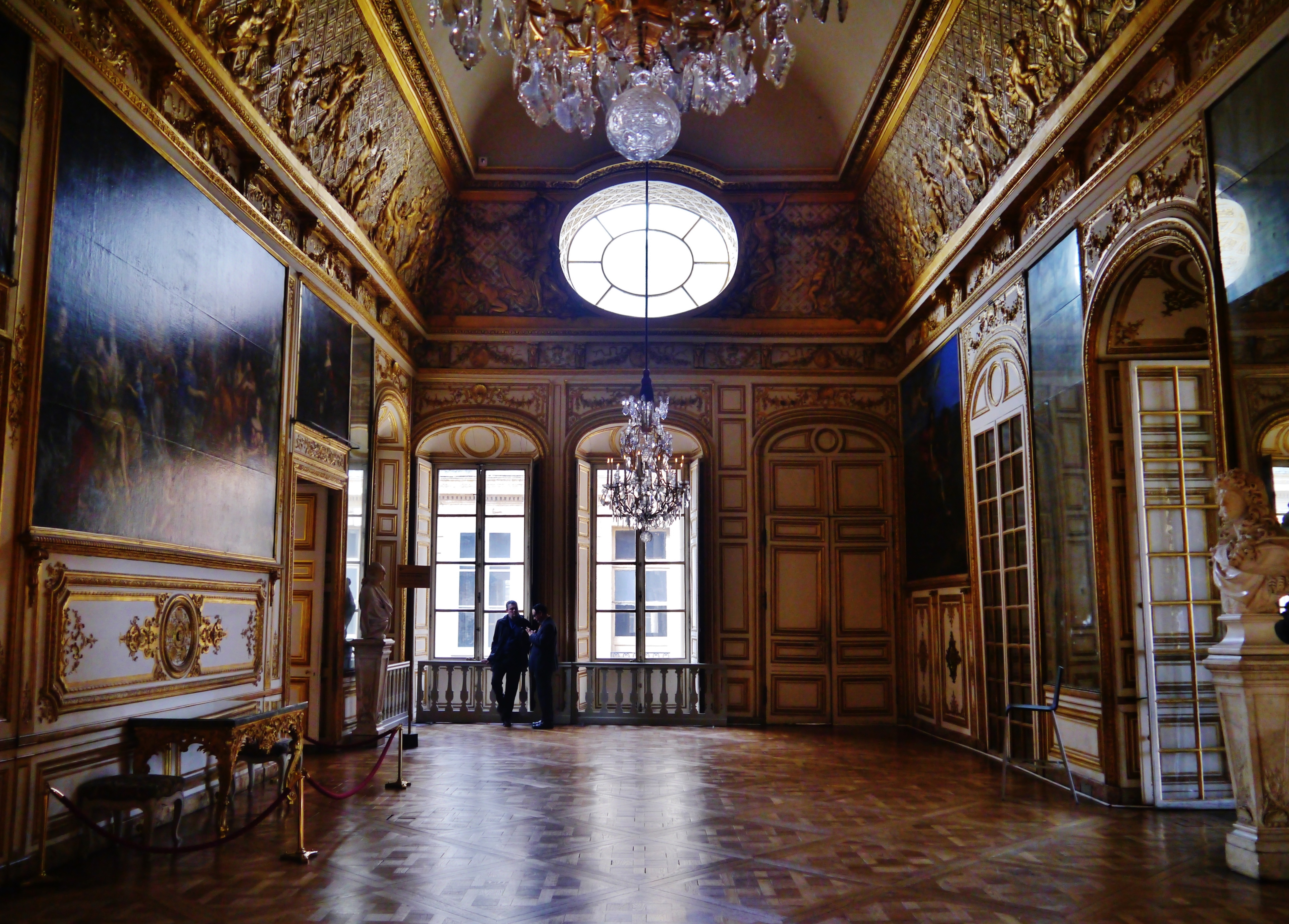 Bull's Eye Salon at Versailles Palace, Versailles, Département of Yvelines, Region of Île-de-France, France